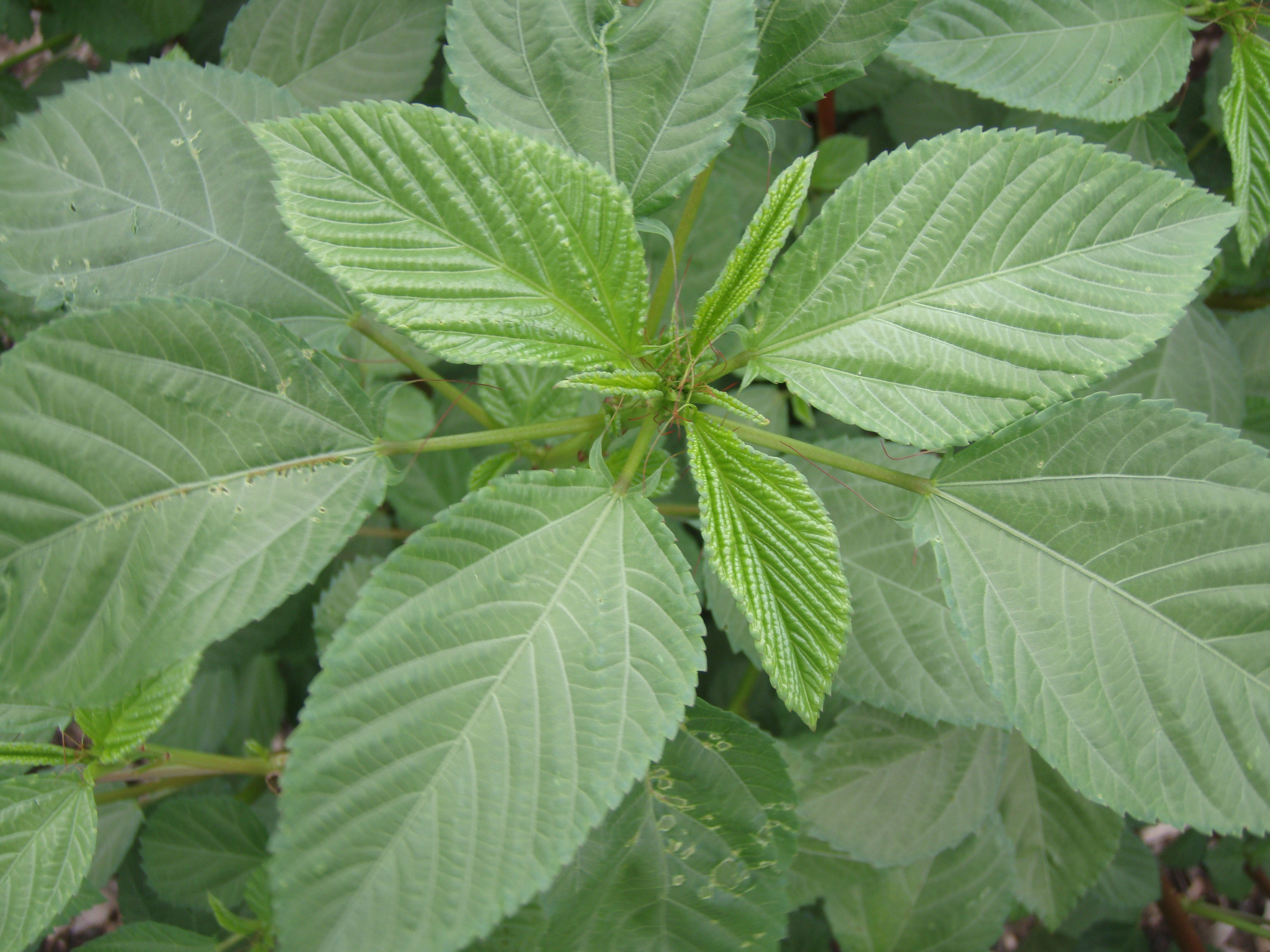 Corchorus